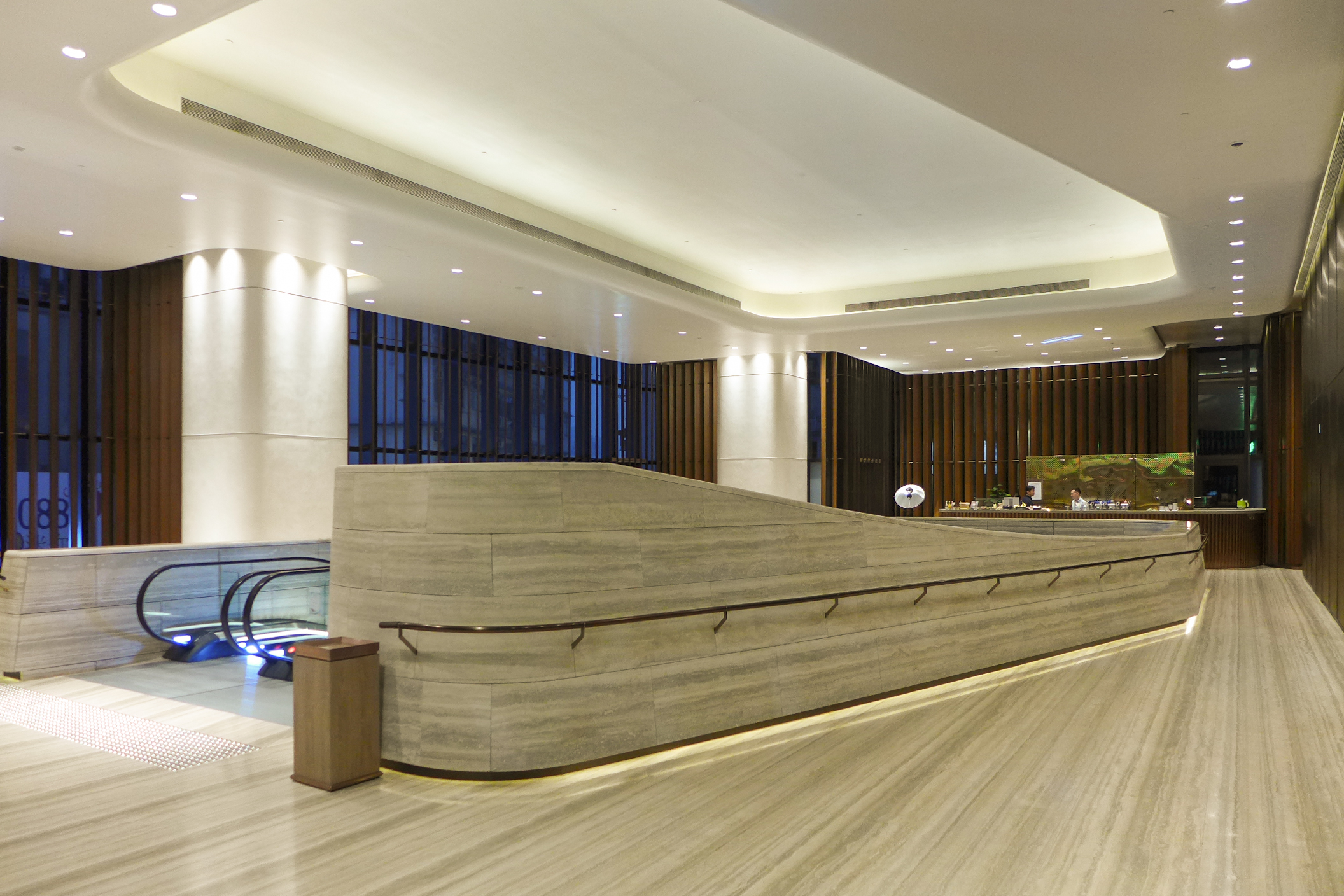 TOWER 535 Lobby